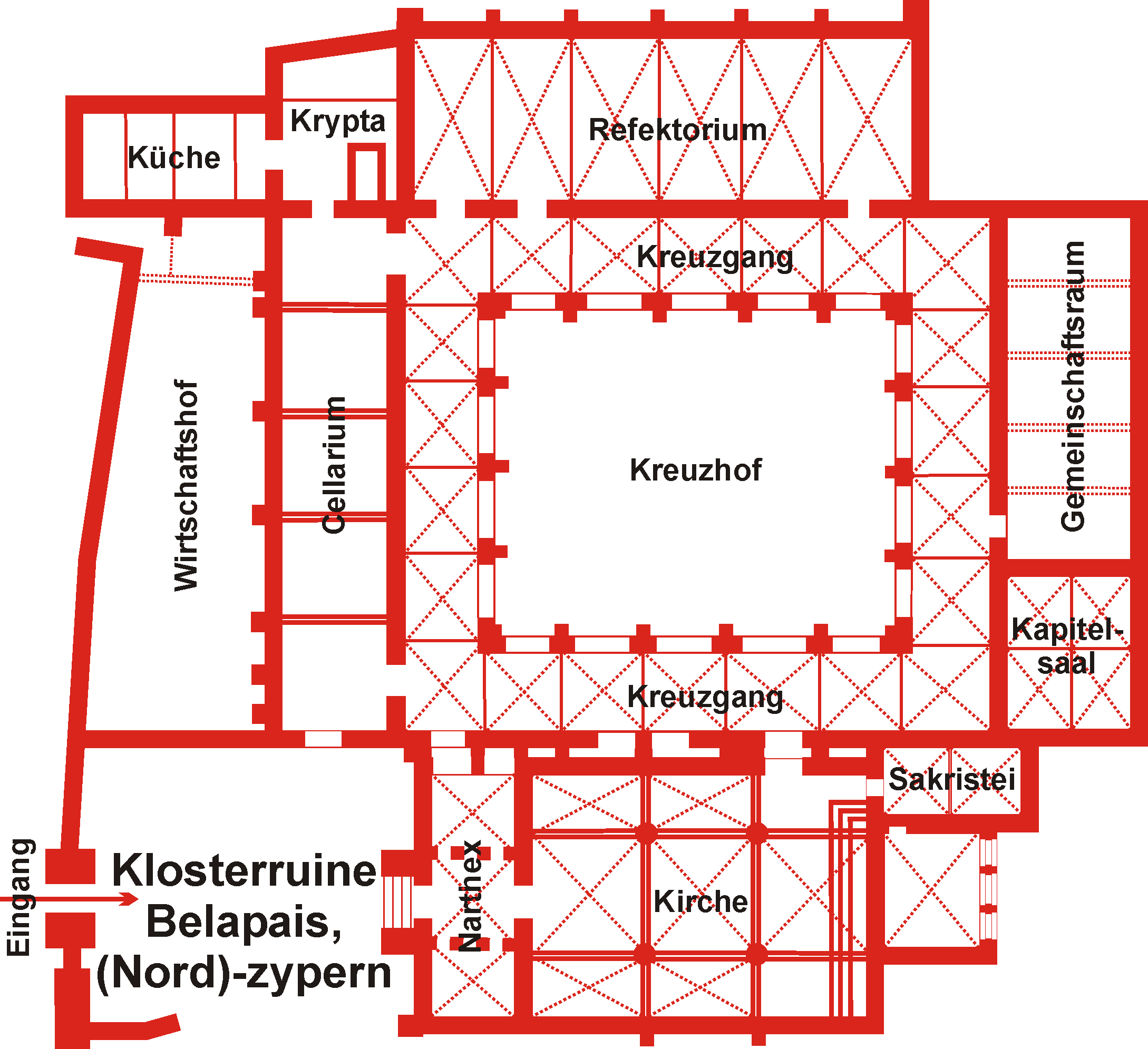 Plan of the Monastery of Bellapais - North-Cyprus - Near Girne/Keryneia